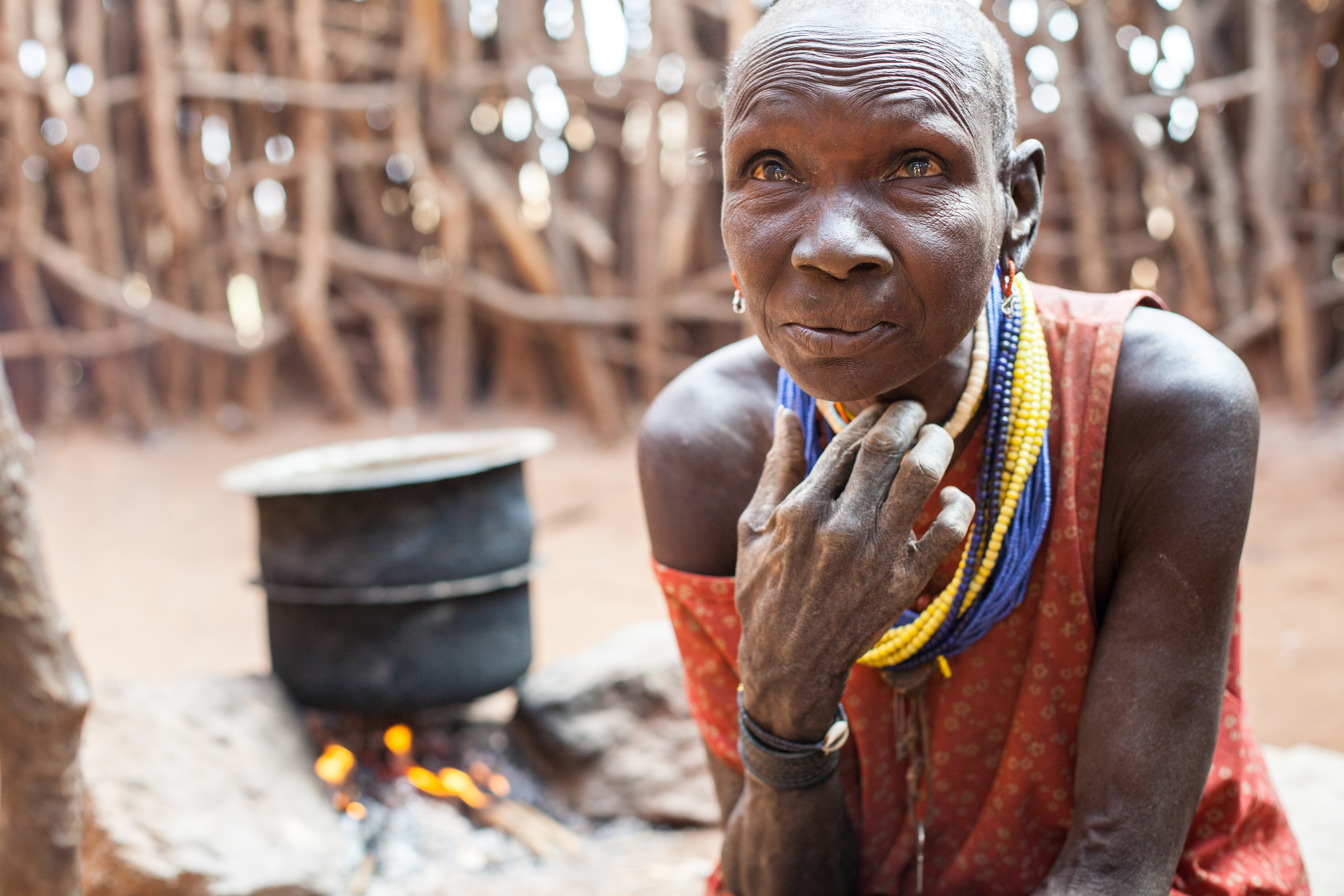 This is an image of "African people at work" from Uganda